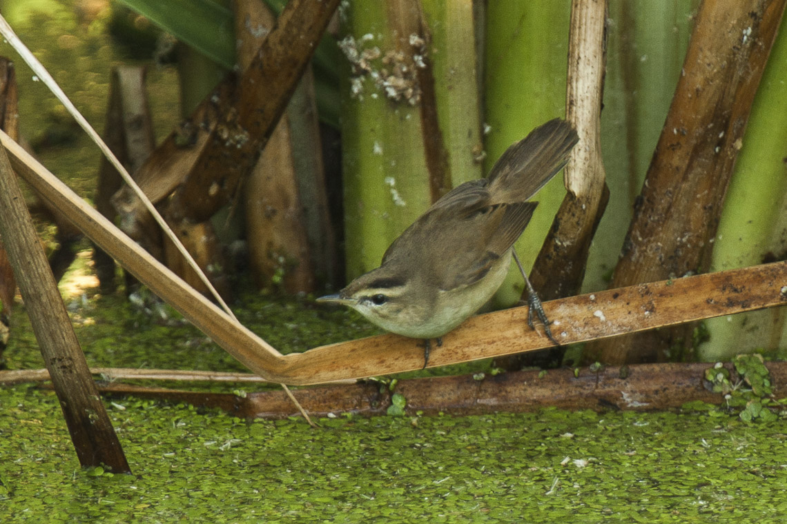 Black-browed Reed-Warbler - Thailand_H8O4187